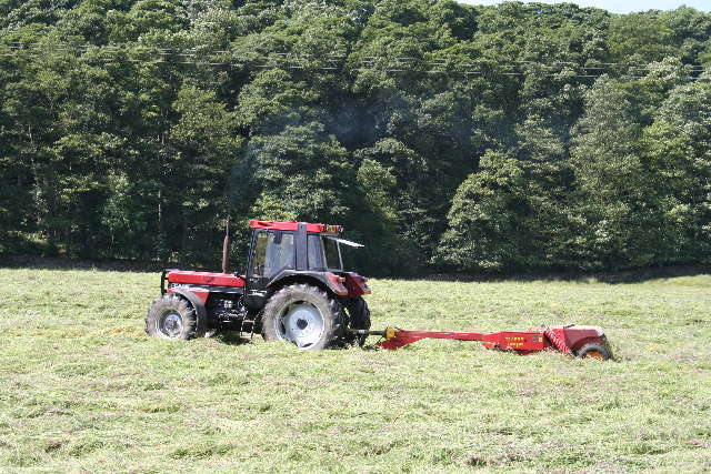 Haymaking. Haymaking on the Bolton Abbey Estate, part of the Duke of Devonshire's lands. Agriculture here is mainly pastoral and the grass crop is very important.